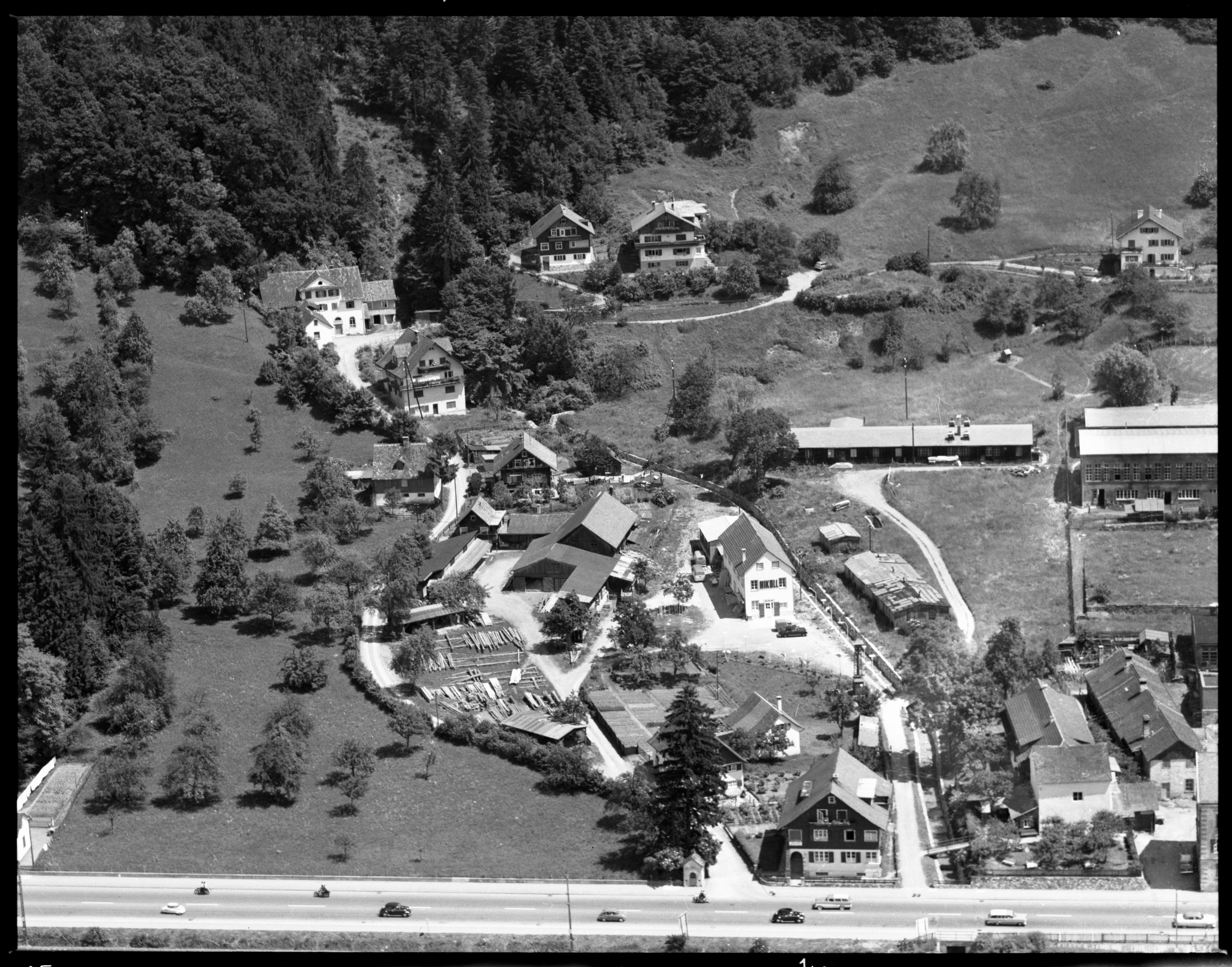 Lochau in Vorarlberg, Austria. The Klausmühle, and the Neue Schanze (Seeschanze) from the collection: historical oblique aerial photographs from the Vorarlberger Landesbibliothek (volare